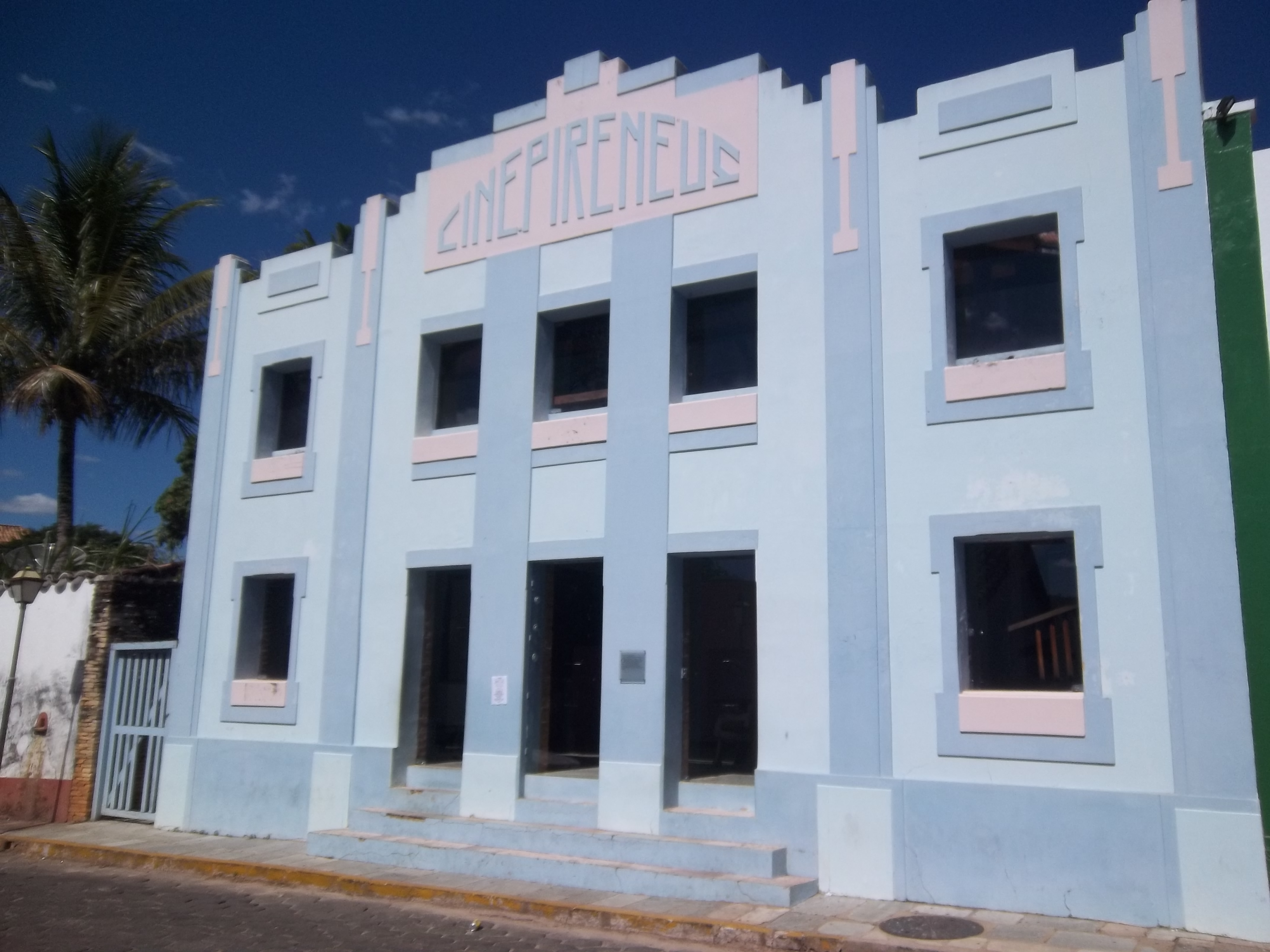 Cine Pireneus em Pirenópolis.